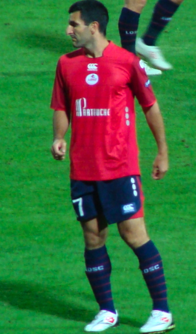 Pierre Alain Frau french player